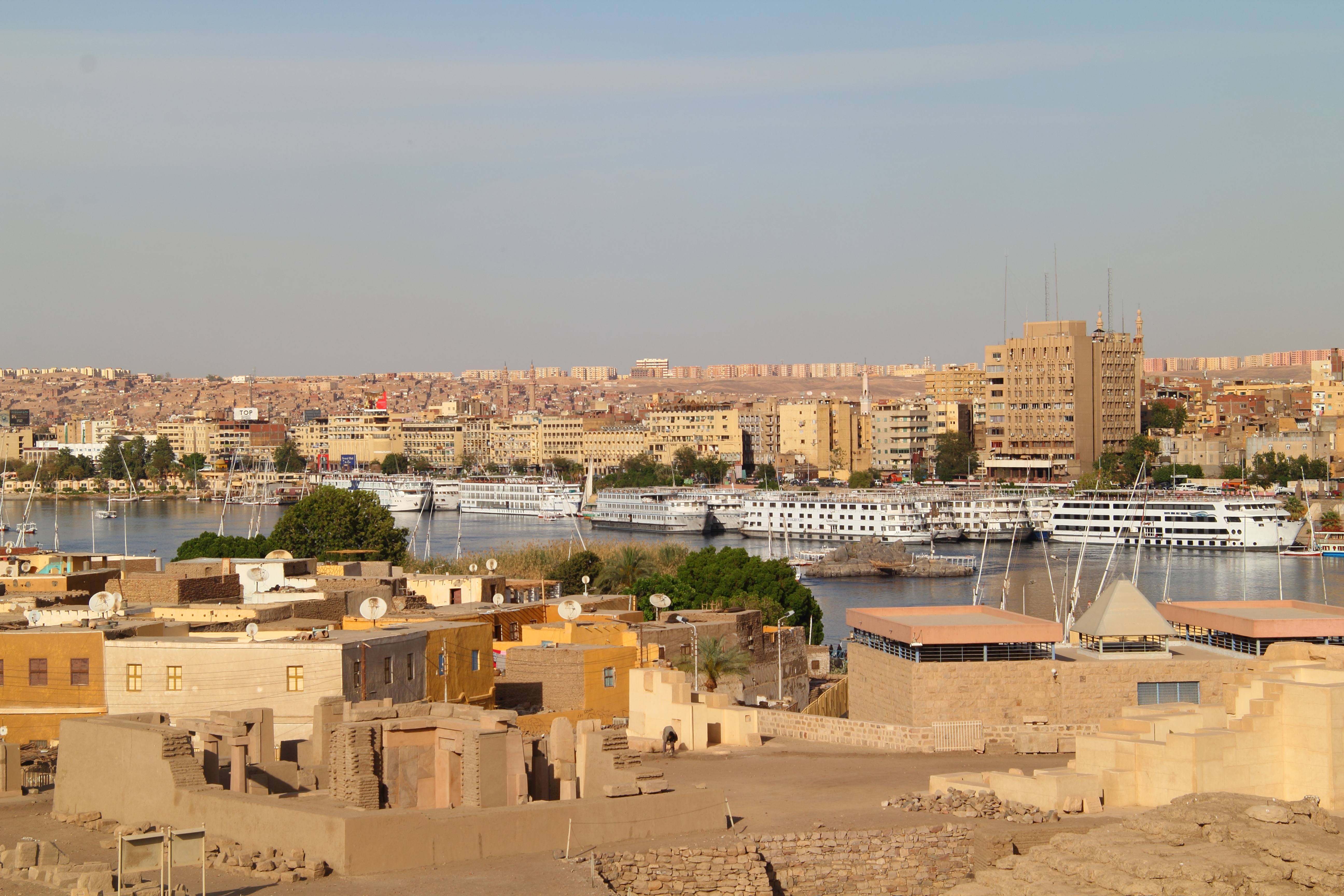 Aswan, the most southern city of Egypt